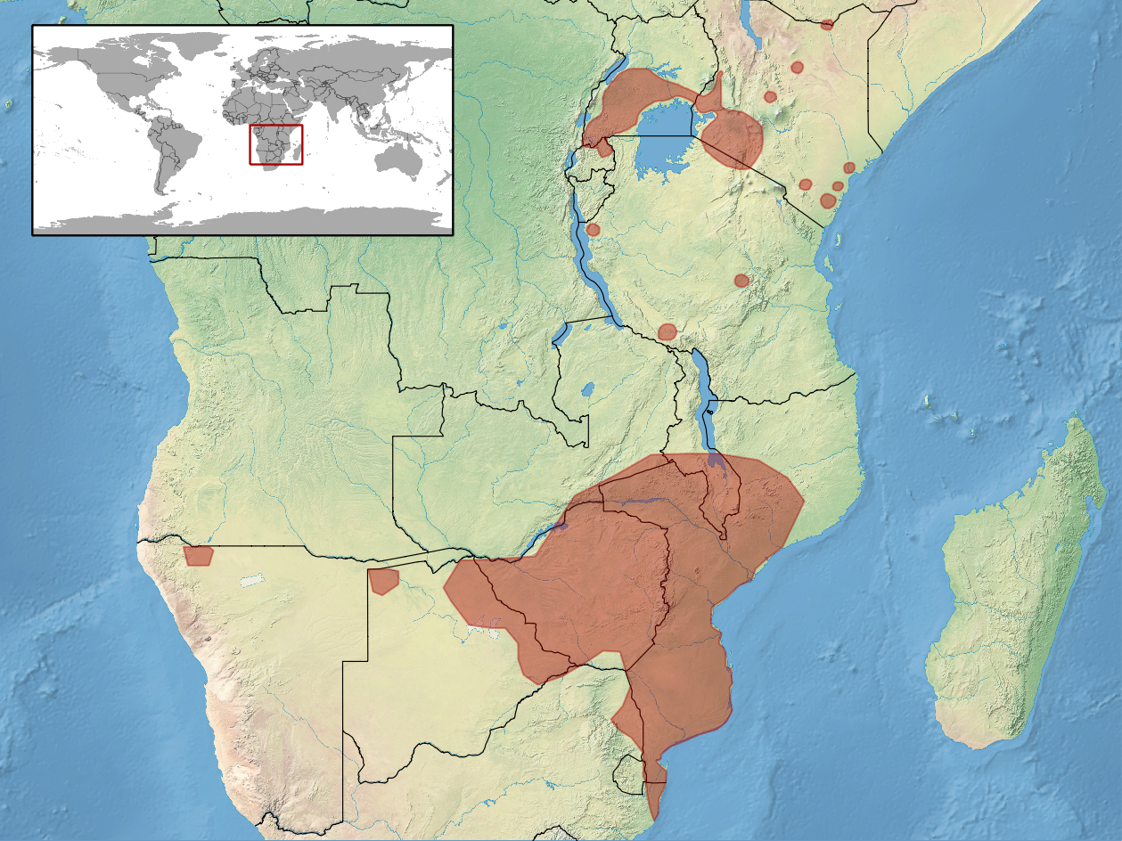 geographic distribution of Acanthocercus atricollis